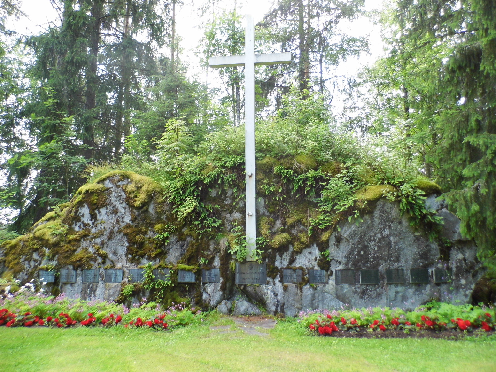 Military cemetary at church in Halkivaha, Finland